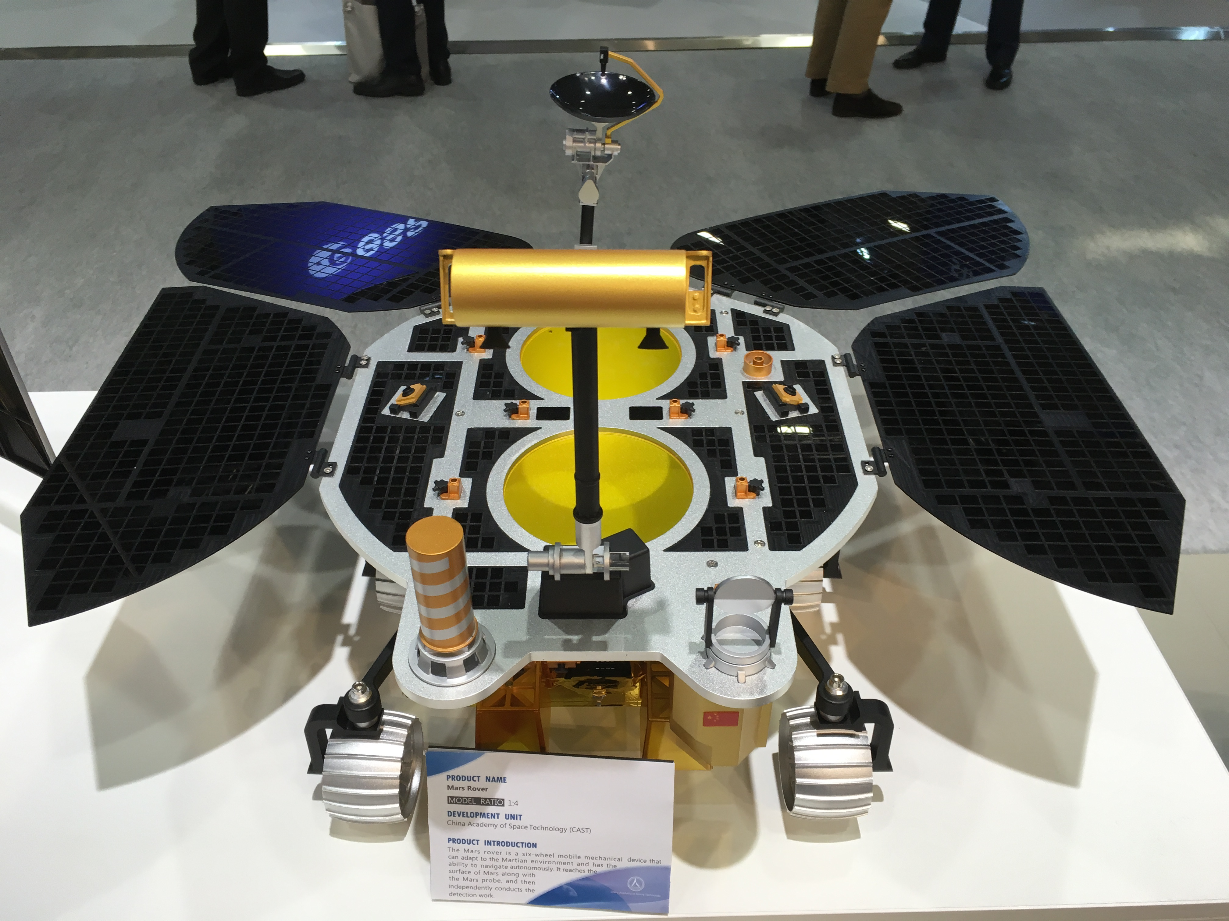 Mockup of the Mars Global Remote Sensing Orbiter and Small Rover at the 69th International Astronautical Congress 2018 at Bremen